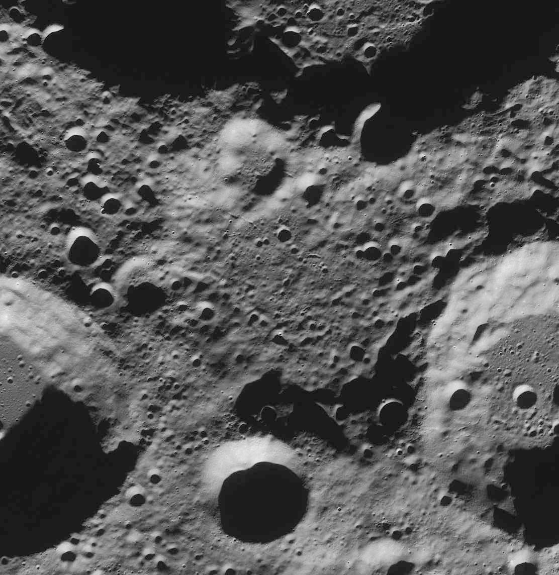 Moon crater Haber (detail of LRO - WAC north pole mosaic)